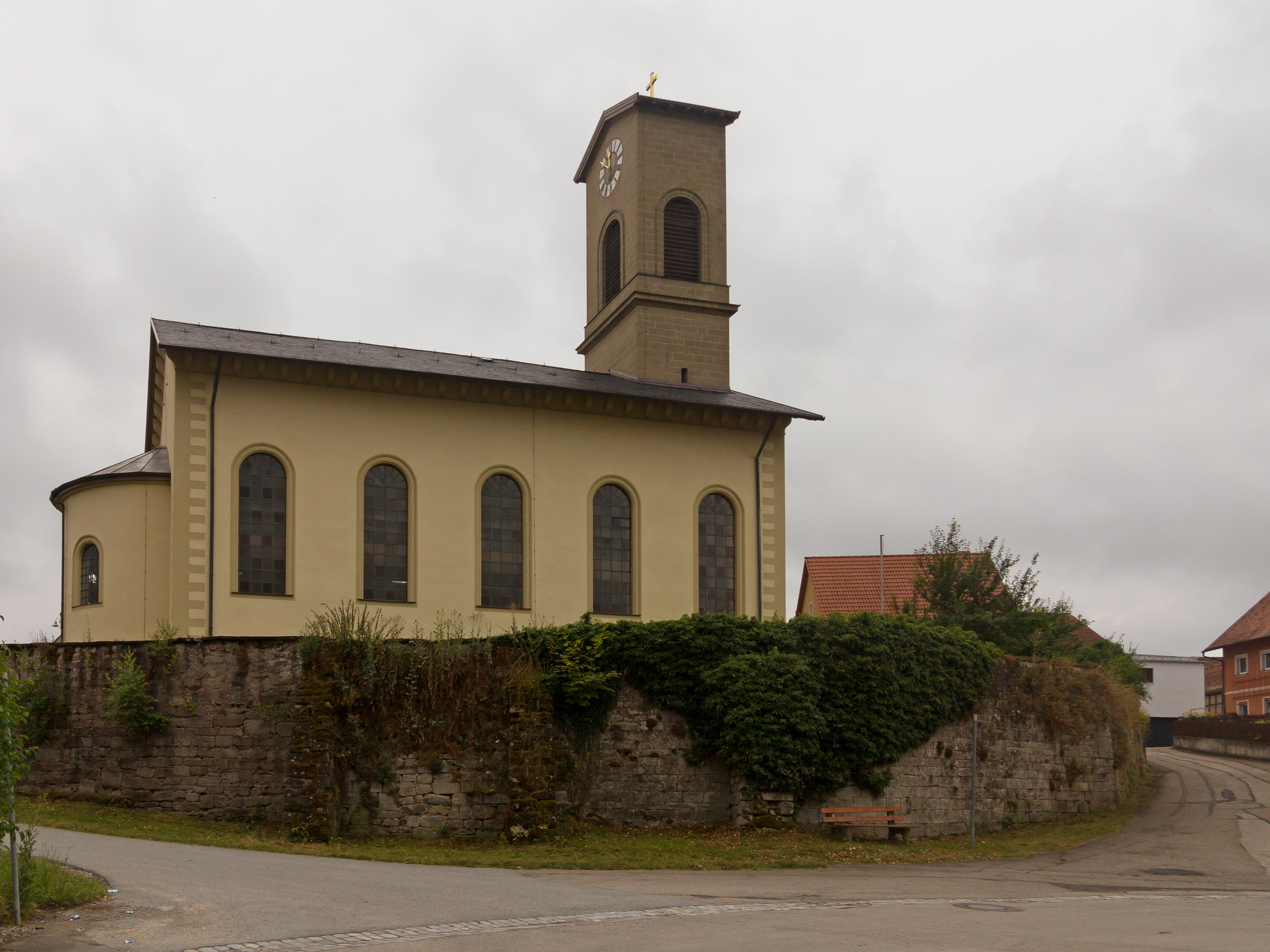 Oberdachstetten, church: die evangelisch-lutherische Pfarrkirche Sankt BartholomäusThis is a photograph of an architectural monument.